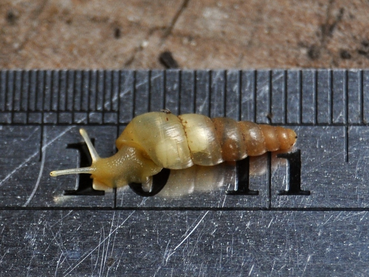 Subulina octona, 12mm height. From Bogor, West Java, Indonesia.